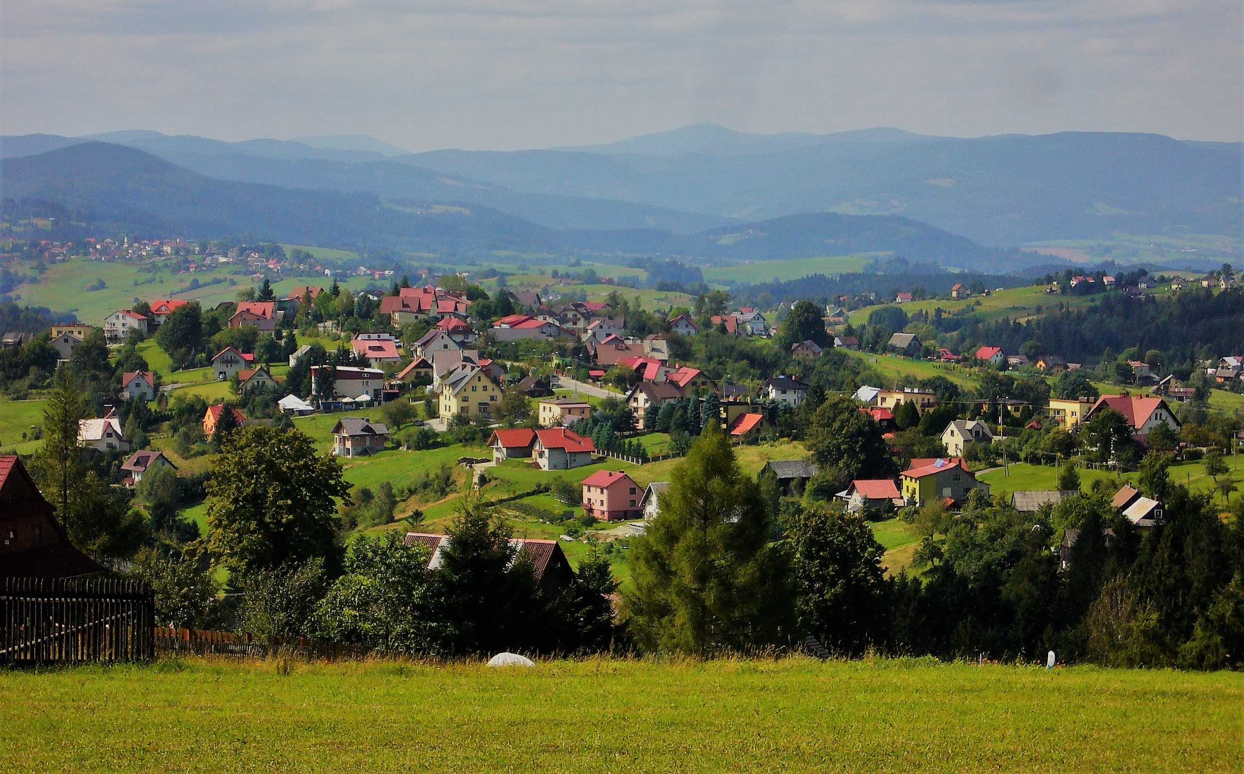 View on Koniaków from the Ochodzita Mount.